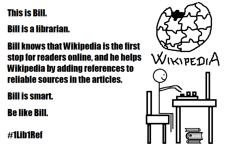 Variant of the "Be like Bill" meme for the #1Lib1Ref initiative.)